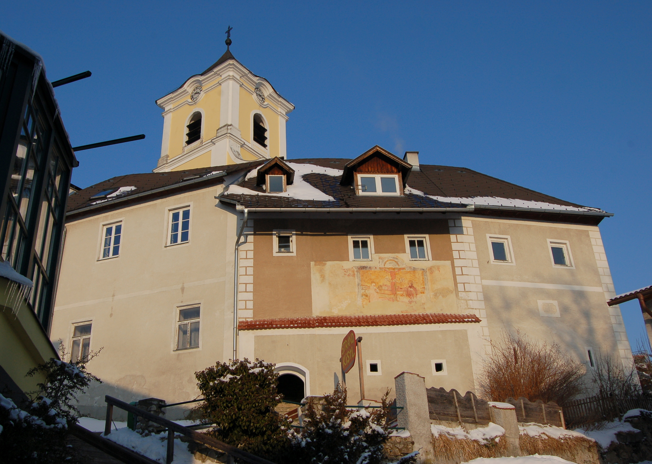 Former gate of the monastery in Kirchberg am Wechsel, Lower Austria